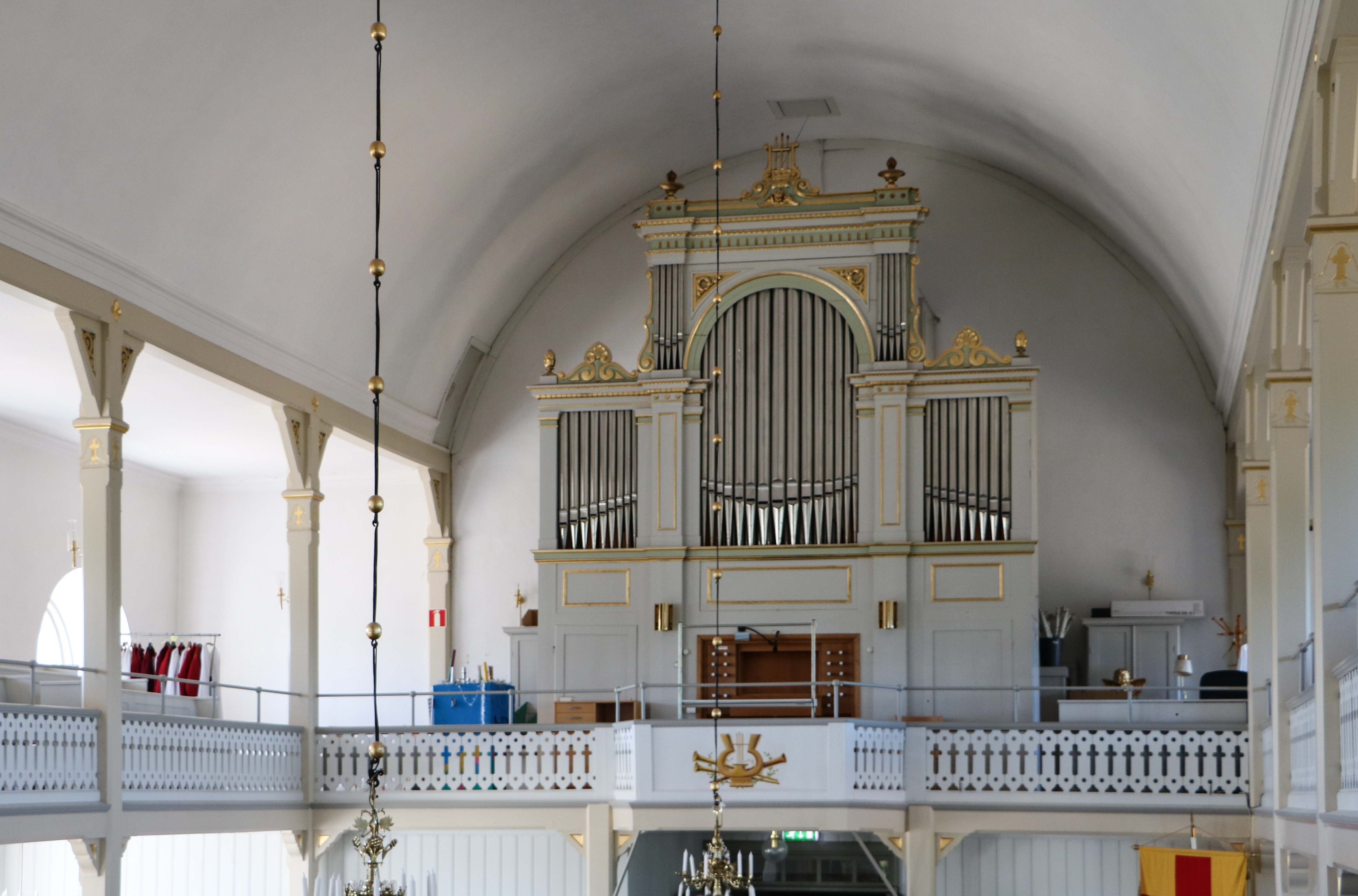 Högby Church. The organ